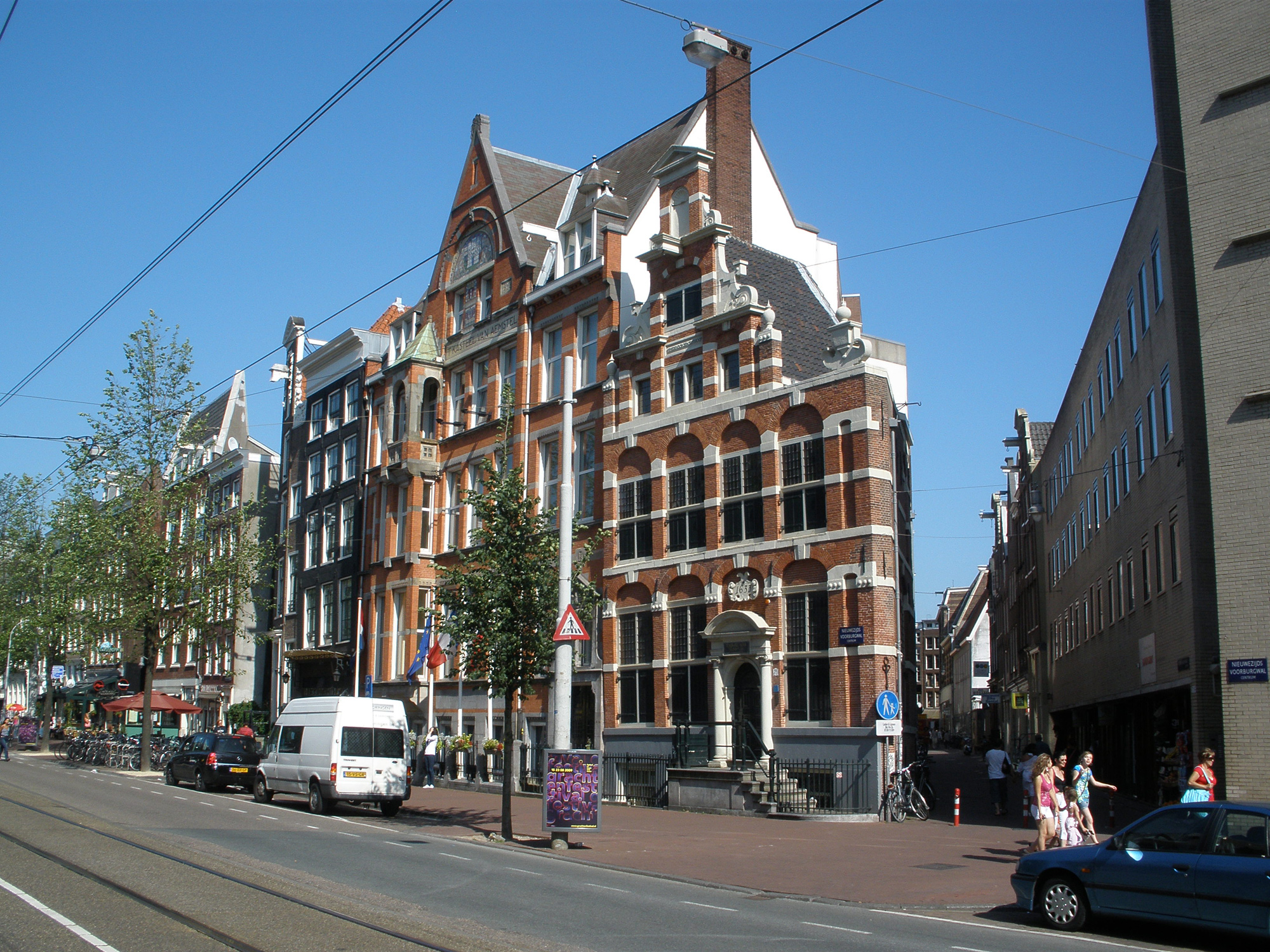 The Makelaers Comptoir guild house (1633) in Amsterdam, the Netherlands